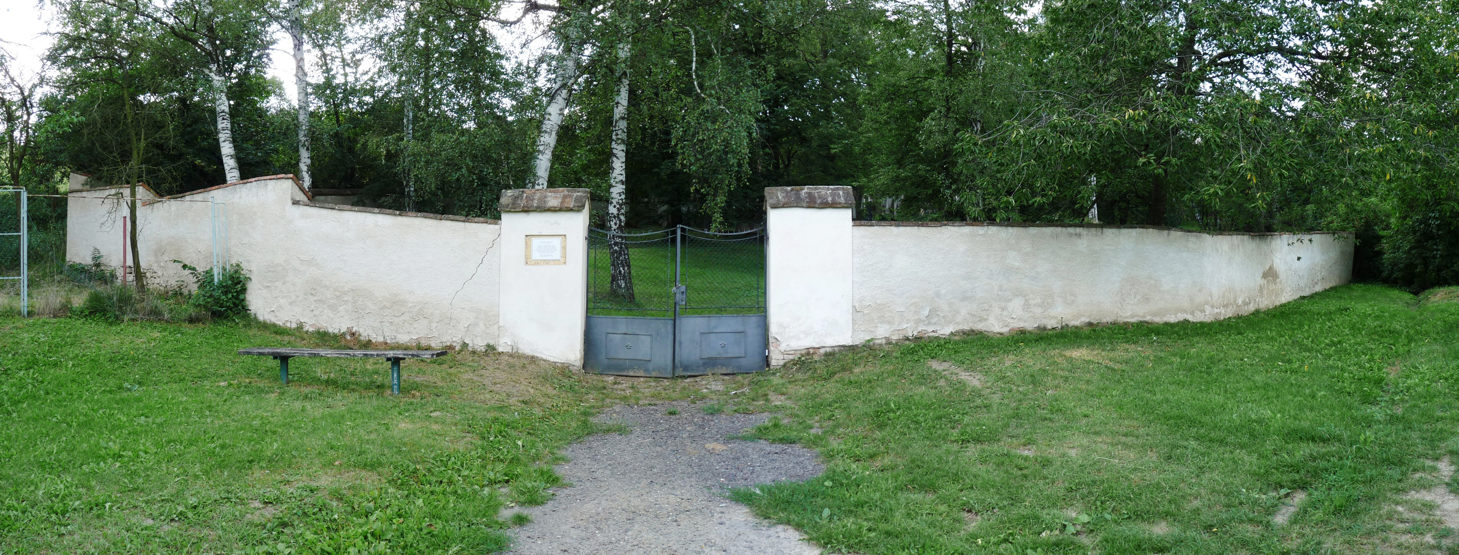 Jewish cemetery in the town of Slavkov u Brna, Vyškov District, Czech Republic.